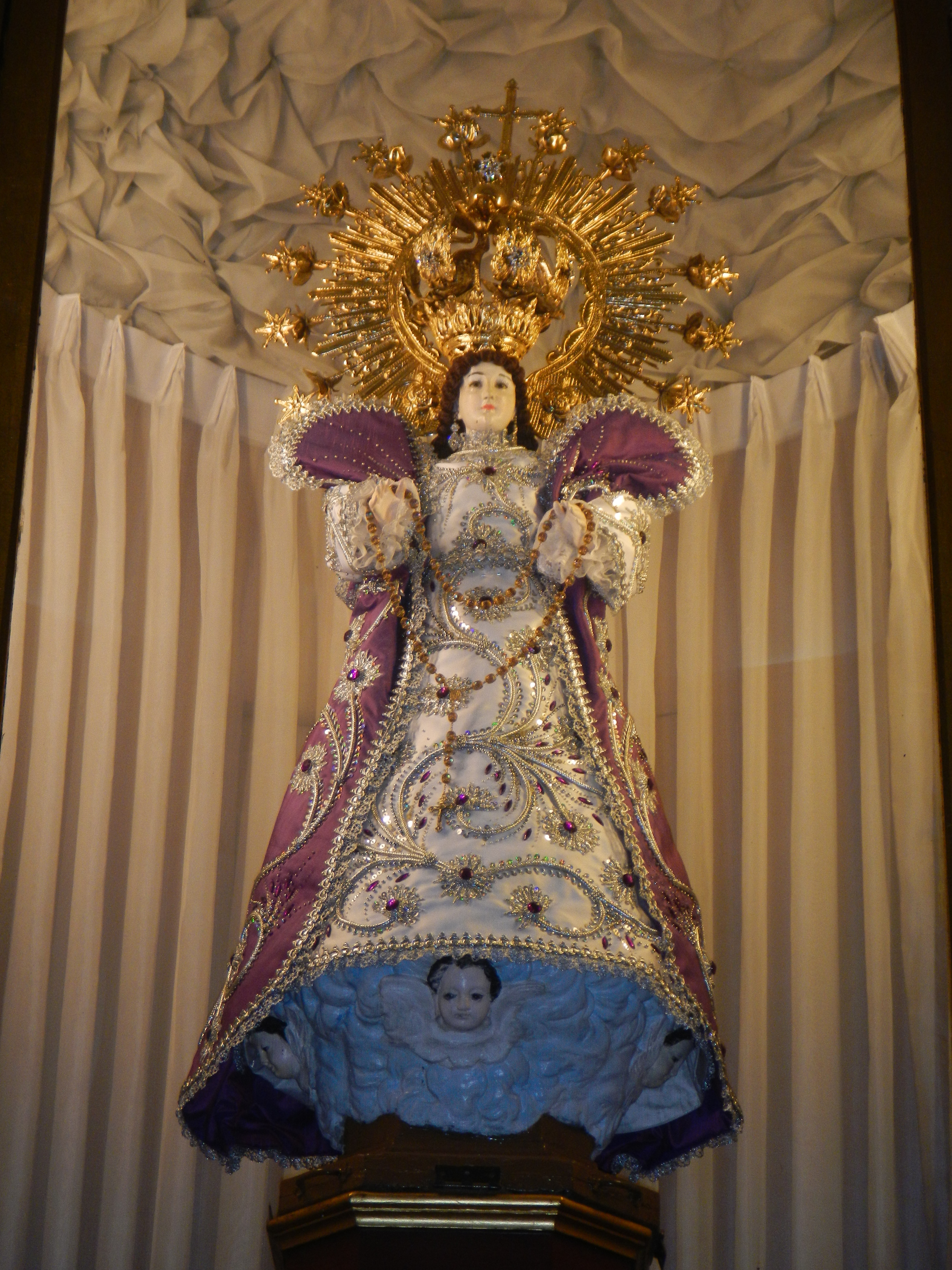 Malate Church[1] (Our Lady of Remedies Parish Church) is a church in Manila, Philippines and belongs to the Archdiocese of Manila[2]. It is a Baroque-style church, which faces the Rajah Sulaiman park and beyond Manila Bay. The church is dedicated to Nuestra Señora de Remedios ("Our Lady of Remedies"), the patroness of childbirth. A revered statue of the Virgin Mary in her role as Our Lady of Remedies was brought from Spain in 1624 and stands at the altar.[3][4][5]2000 MH del Pilar, Malate, 1004 Manila Coordinates: 14°34'9"N 120°59'4"E[6][7][8] Fr. John Leydon, MSSC, Irish Columbian, Parish Priest